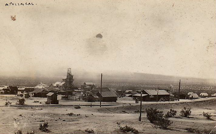 This image from a postcard shows the layout of the Atolia mining operations — including the mine and mining buildings, outlying tents, electrical & telephone wires, the Randsburg Railway tracks, and a windmill. The postcard has an AZO back which is typical of the time between 1904-1918. The date of the photograph is approximate to around 1908 with no real accuracy.